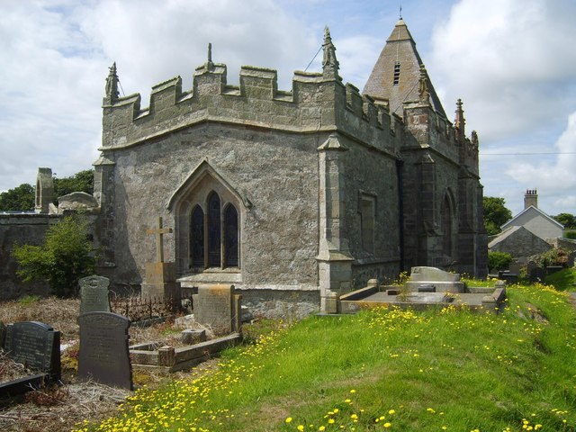 Eglwys St Eilian from the rear